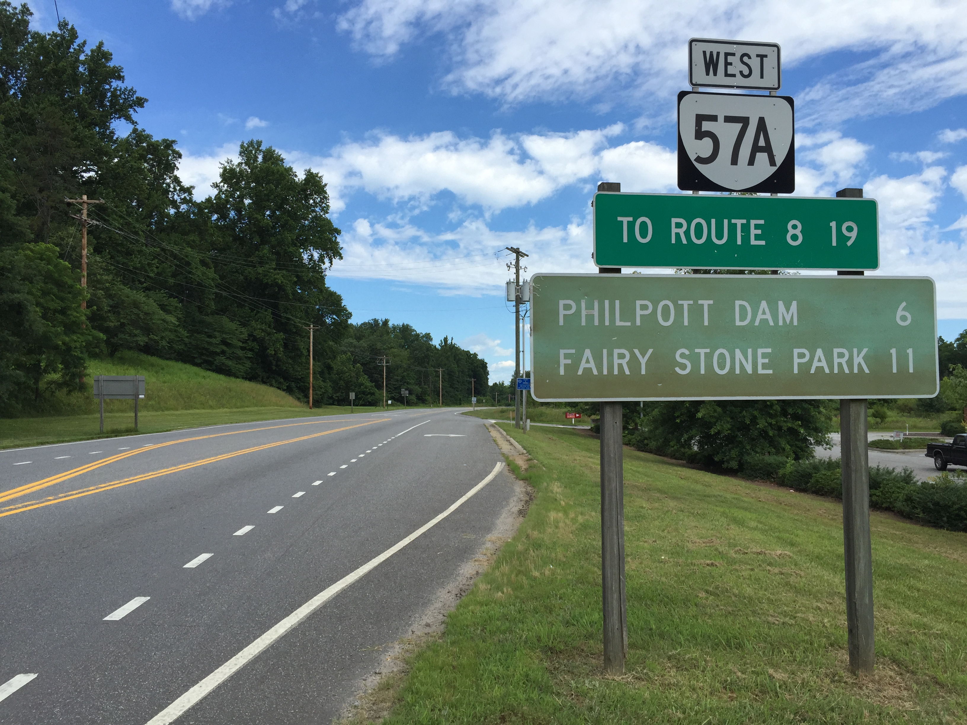 View west along Virginia State Route 57 Alternate (Riverside Drive) at T B Stanley Highway (Virginia State Secondary Route 903) in Firestone, Henry County, Virginia